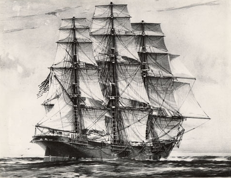 The American clipper ship "Sovereign of the Seas". Written on back: "Sovereign of the Seas". Builder: Donald McKay, Boston, 1852. Dimensions: 265' x 44' x 23'. Tonnage: 2421. Type: Clipper Ship.